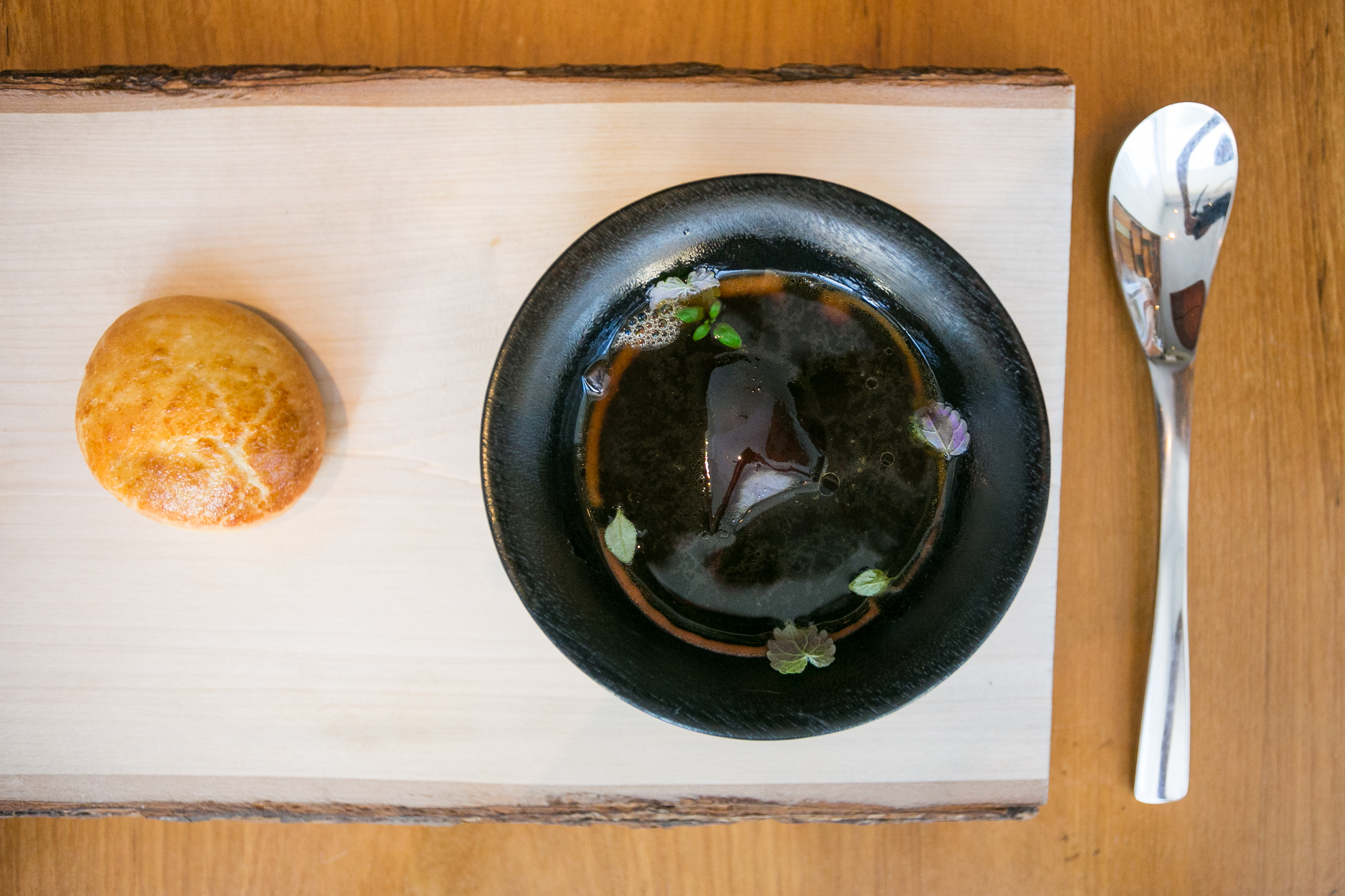 Course number 6 at Atelier Crenn in San Francisco, called "The half moon, silky and smoky" (each menu item is presented as a line in a poem). This is a charred onion soup with a Comté cheese dumpling in the center. Date visited: August 24, 2013